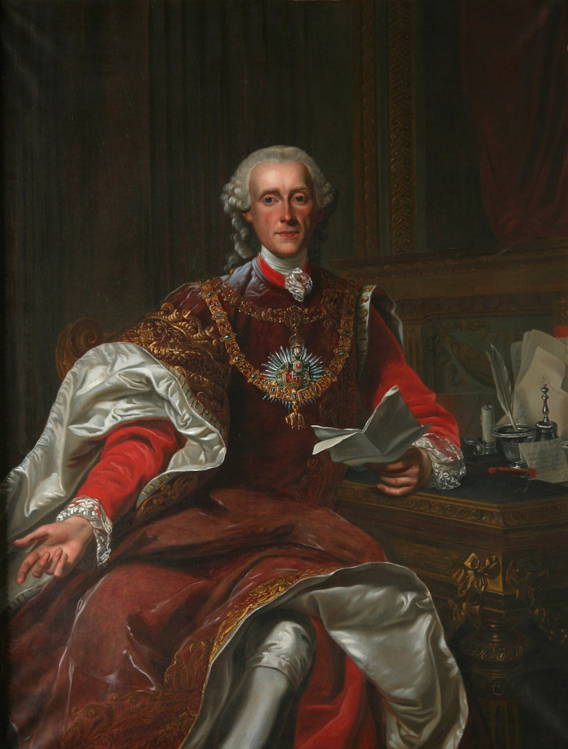 Portrait of Count Georg Adam von Starhemberg (1724-1807), ambassador to the emperor